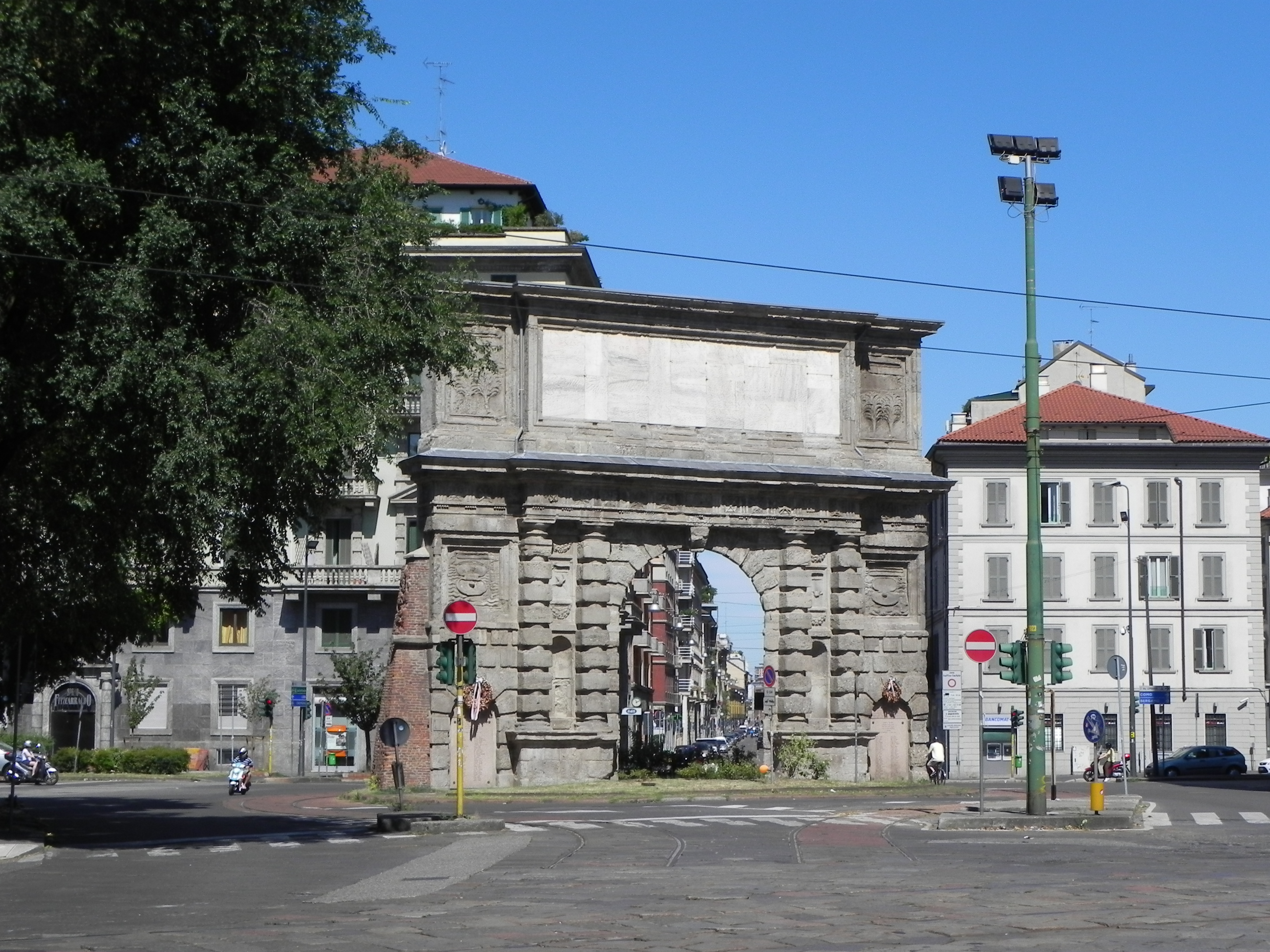 Porta Romana, Milano